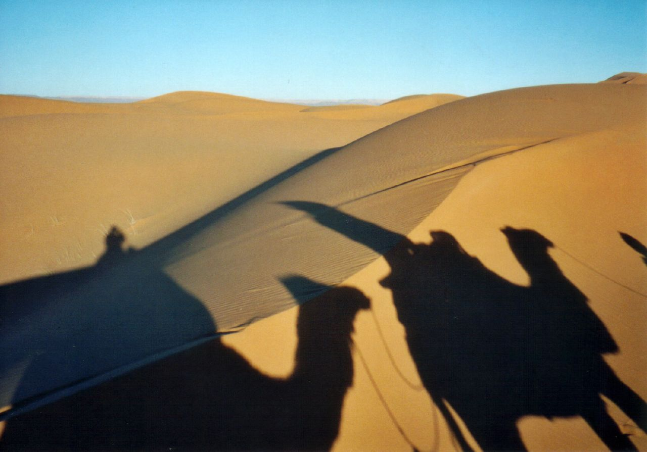 We went to 1 night camel safari.Sahara